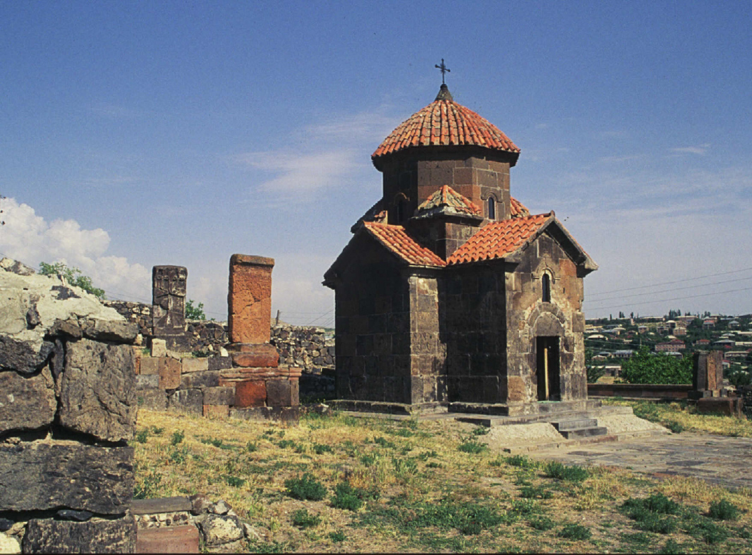 Description: Armenia, Karmravor church; Source: My own picture; Date: created May 2005; Author: Konrad Kuhn; Permission: Own work, attribution required